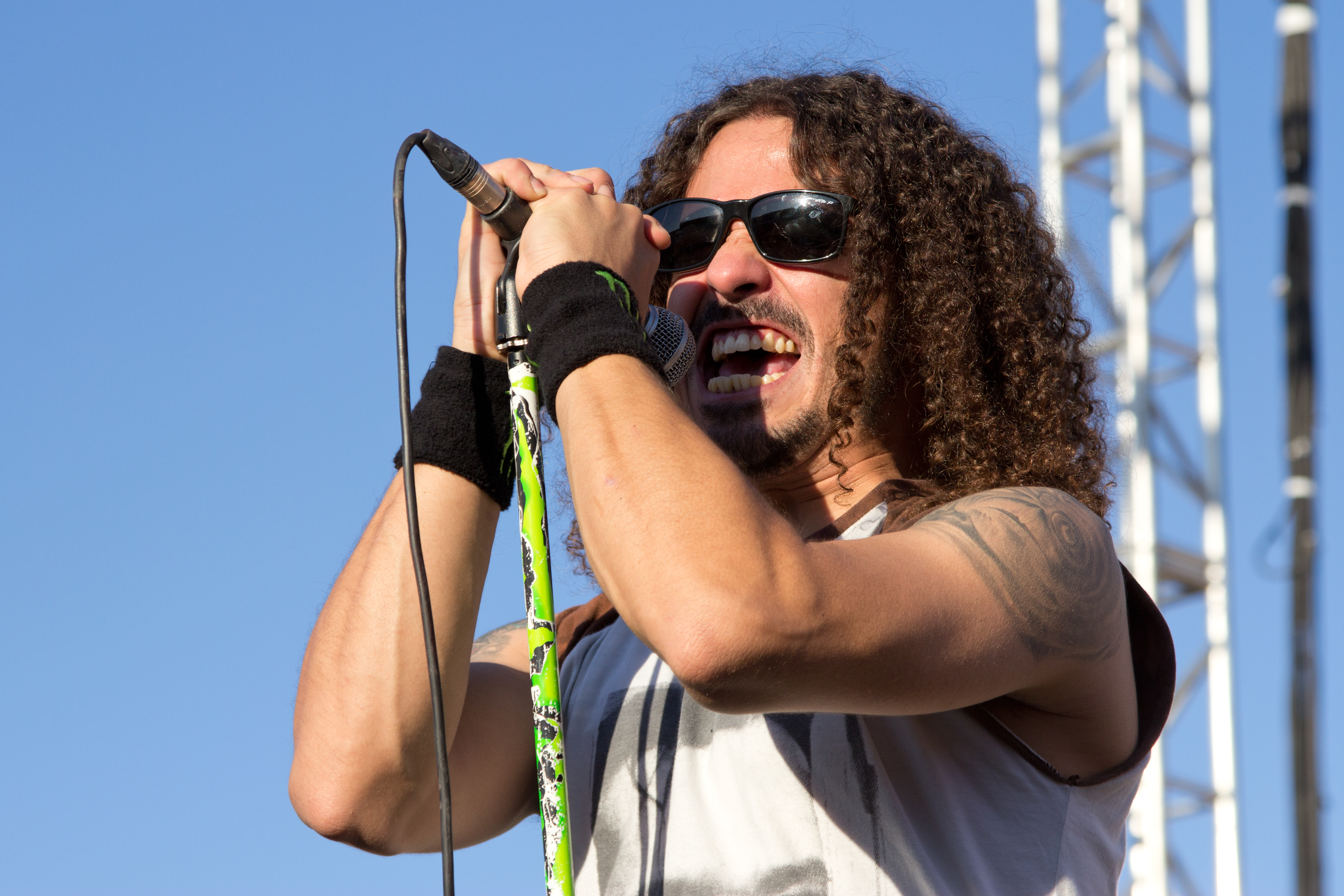 Spanish metal band Crisix at Asaco Metal Fest 2013, Parla, Spain.